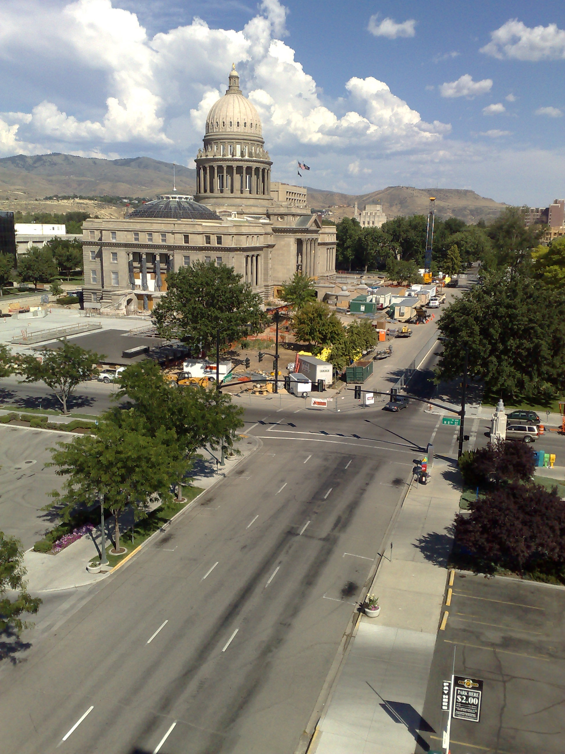 Idaho State Capitol in Boise, Idaho, USA